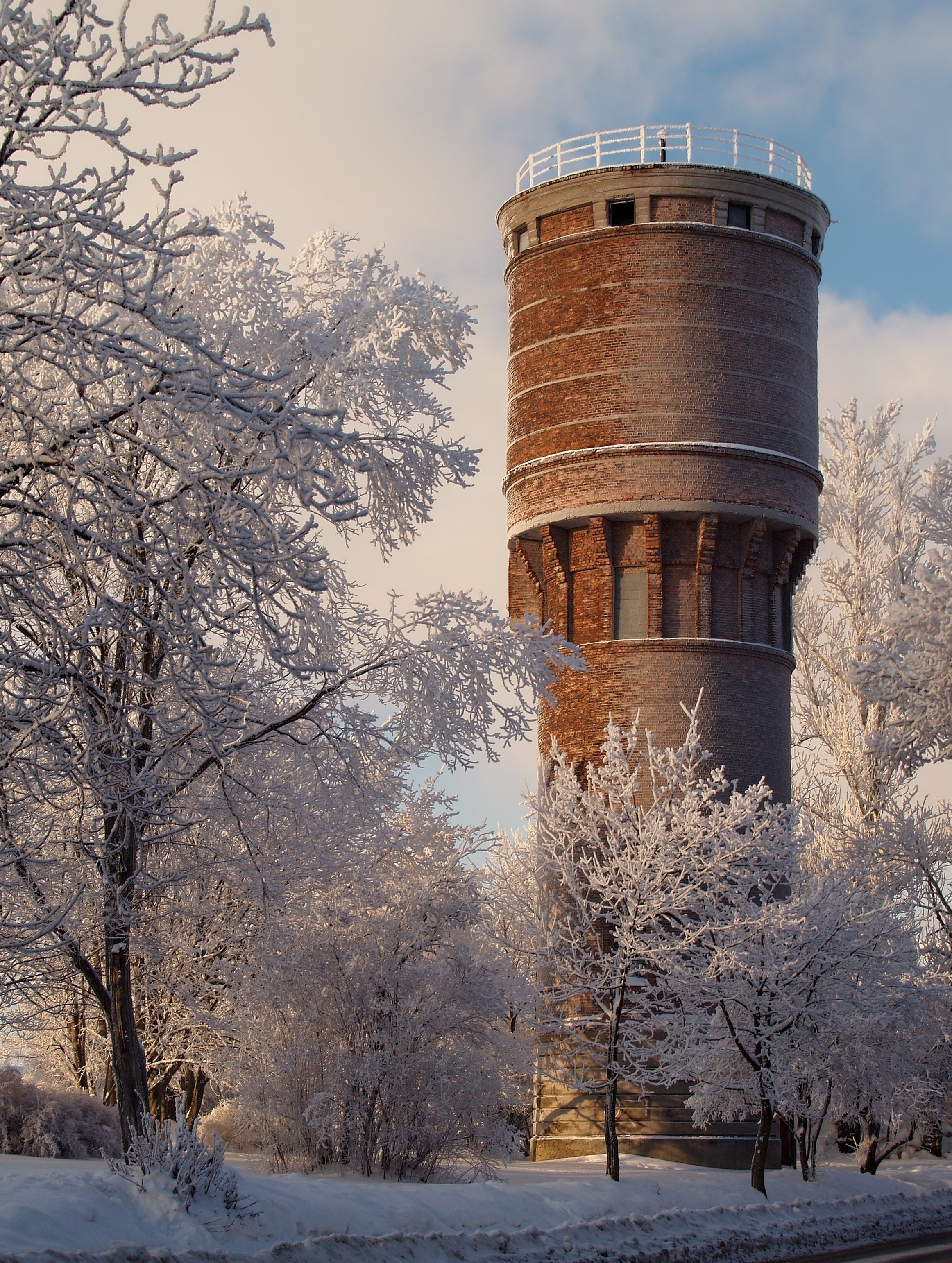 Water tower at Tartu railway station. Present water tower was built in 1950s.